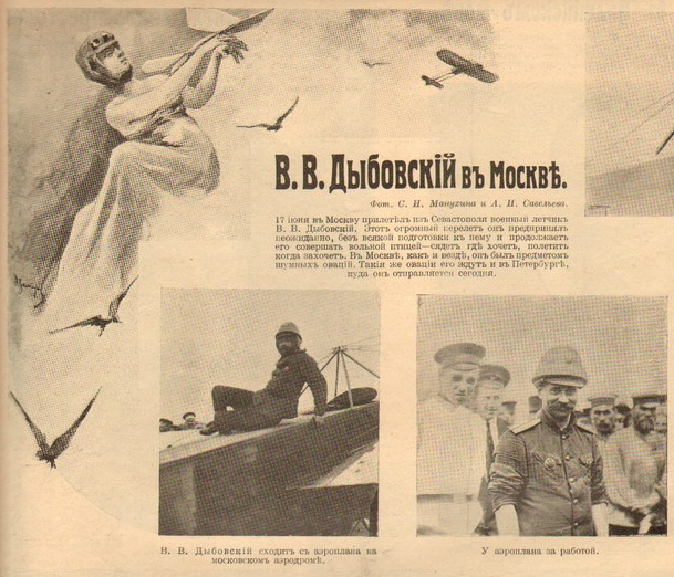 Moscow. Russian pilot Dibovsky V. V. after the flight.